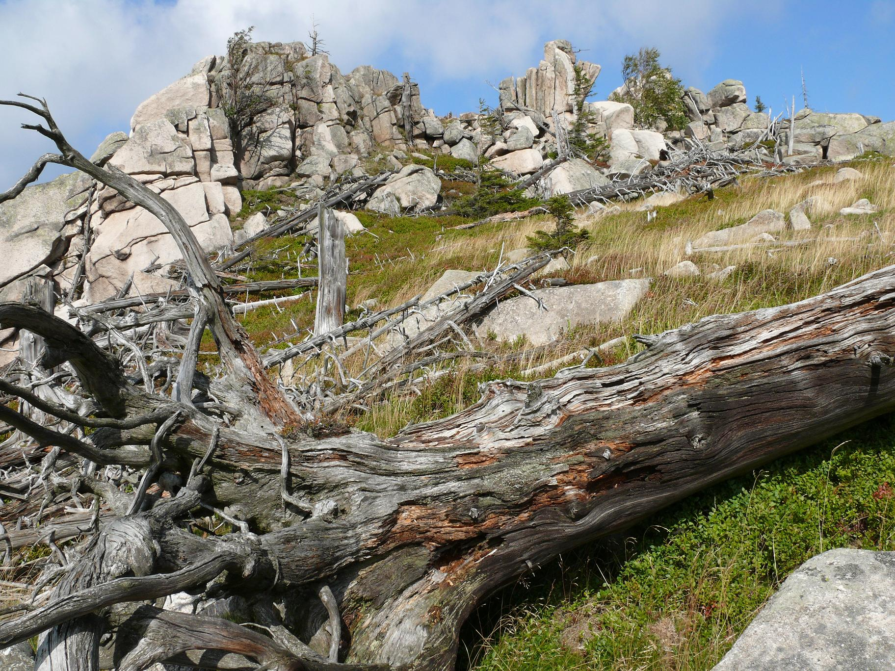 Peak of Sucha Góra sight from south-west